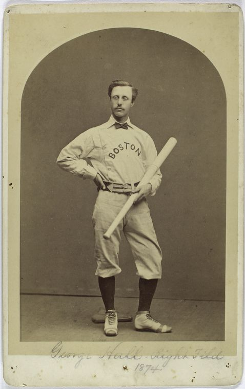 George Hall, Boston Red Stockings, 1874, right field